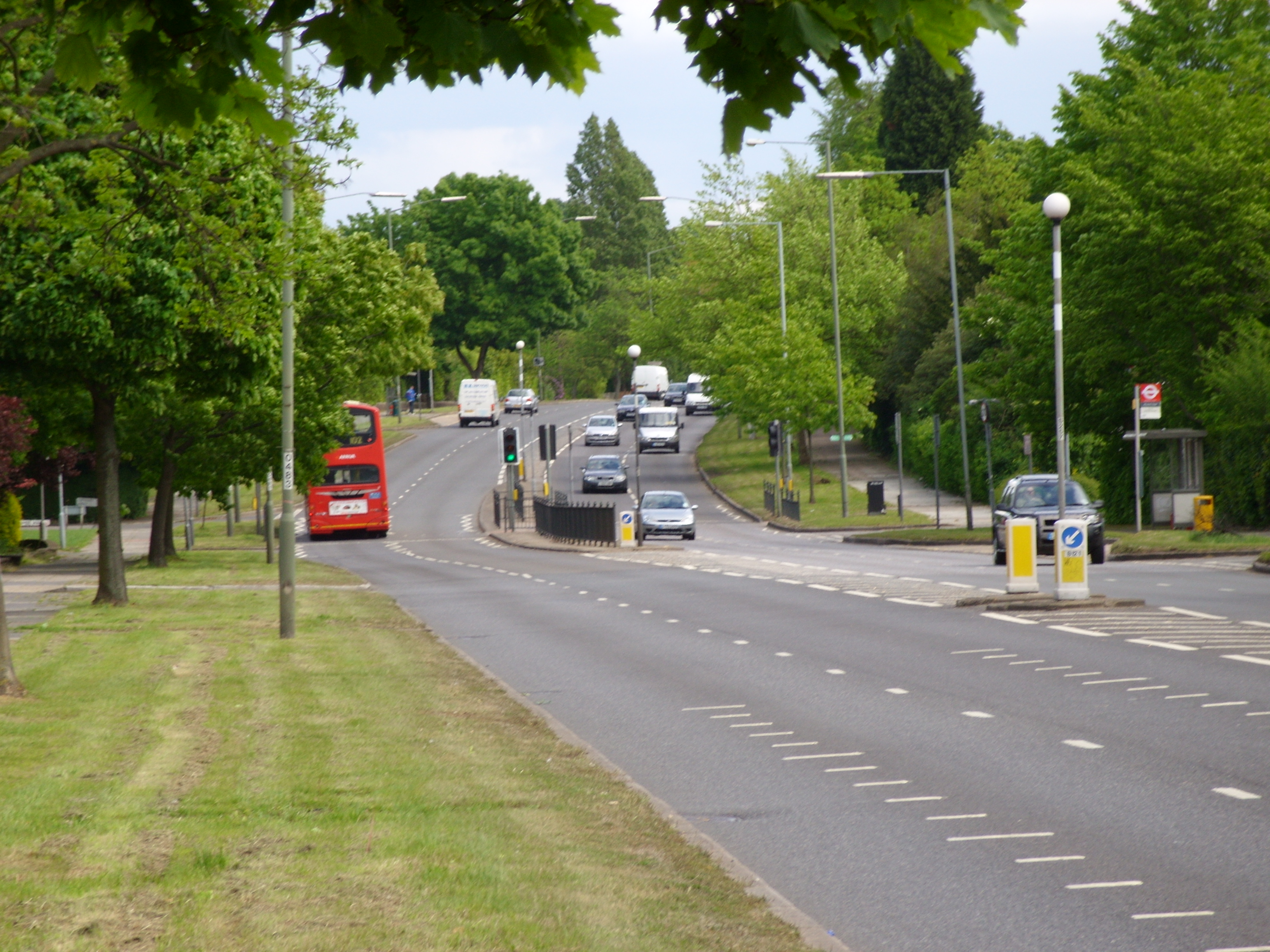 Lyttleton Road, London